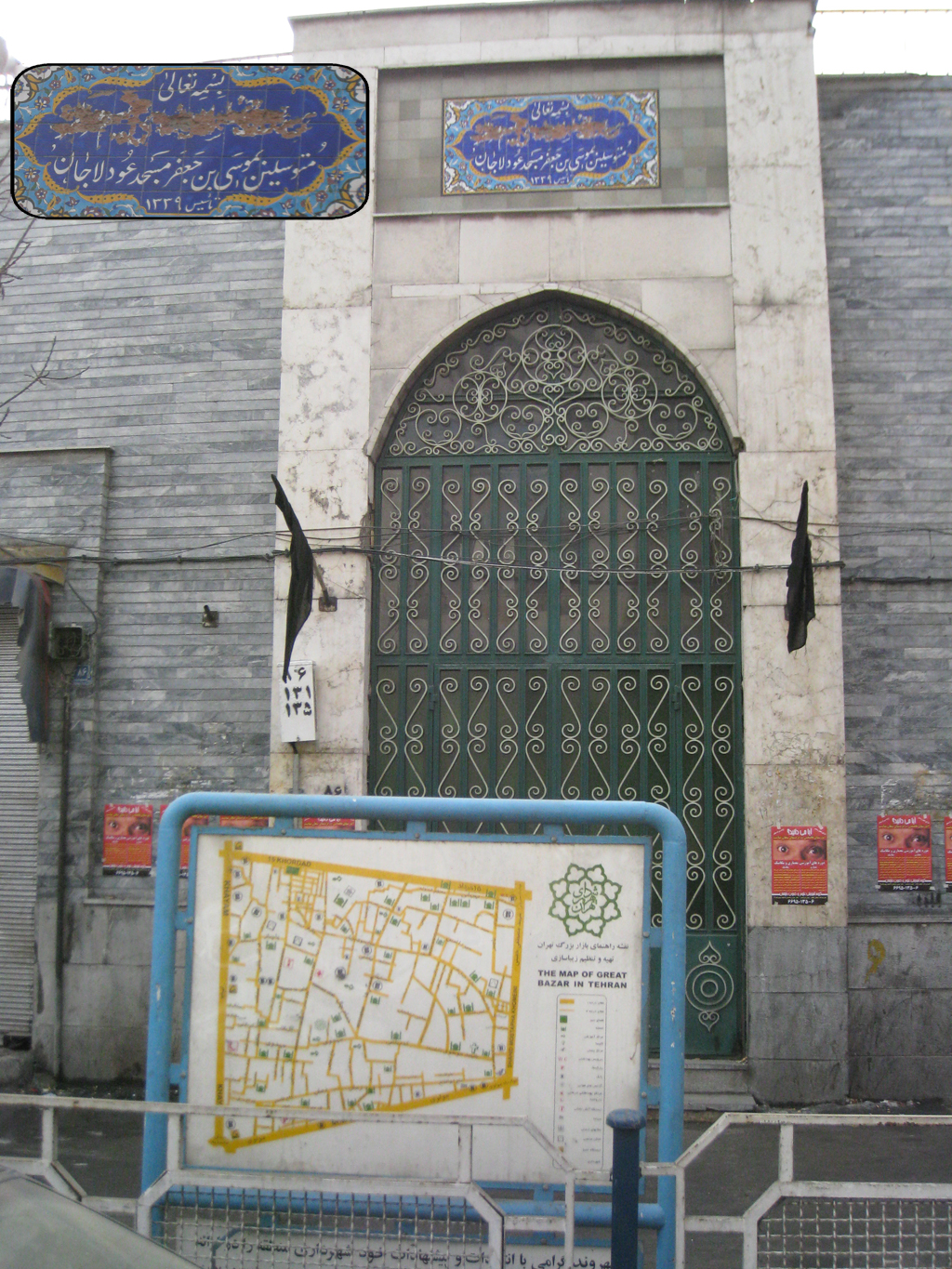 Oud Lajan is a neighbourhood in Tehran, the capital city of Iran.